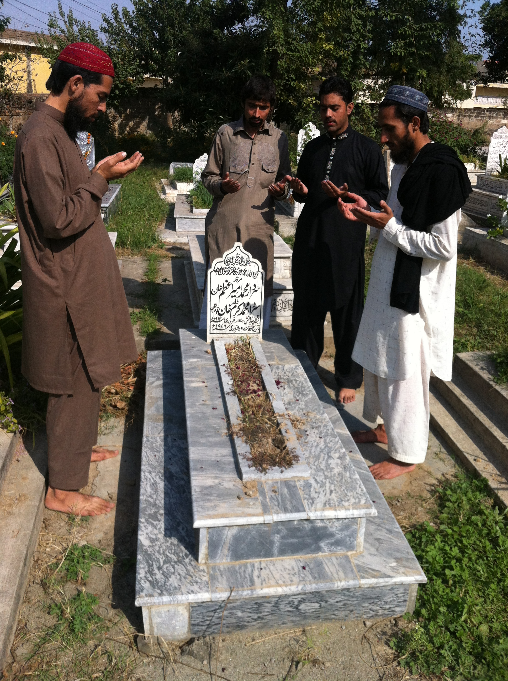 Picture of Grave in Ziarat Sharif.